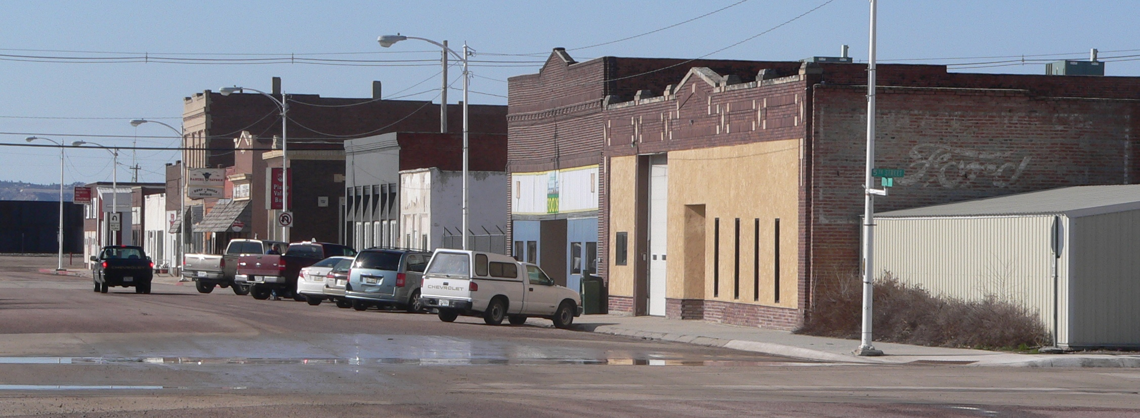 Downtown Minatare, Nebraska: west side of Main Street, looking southwest from about 6th Street.